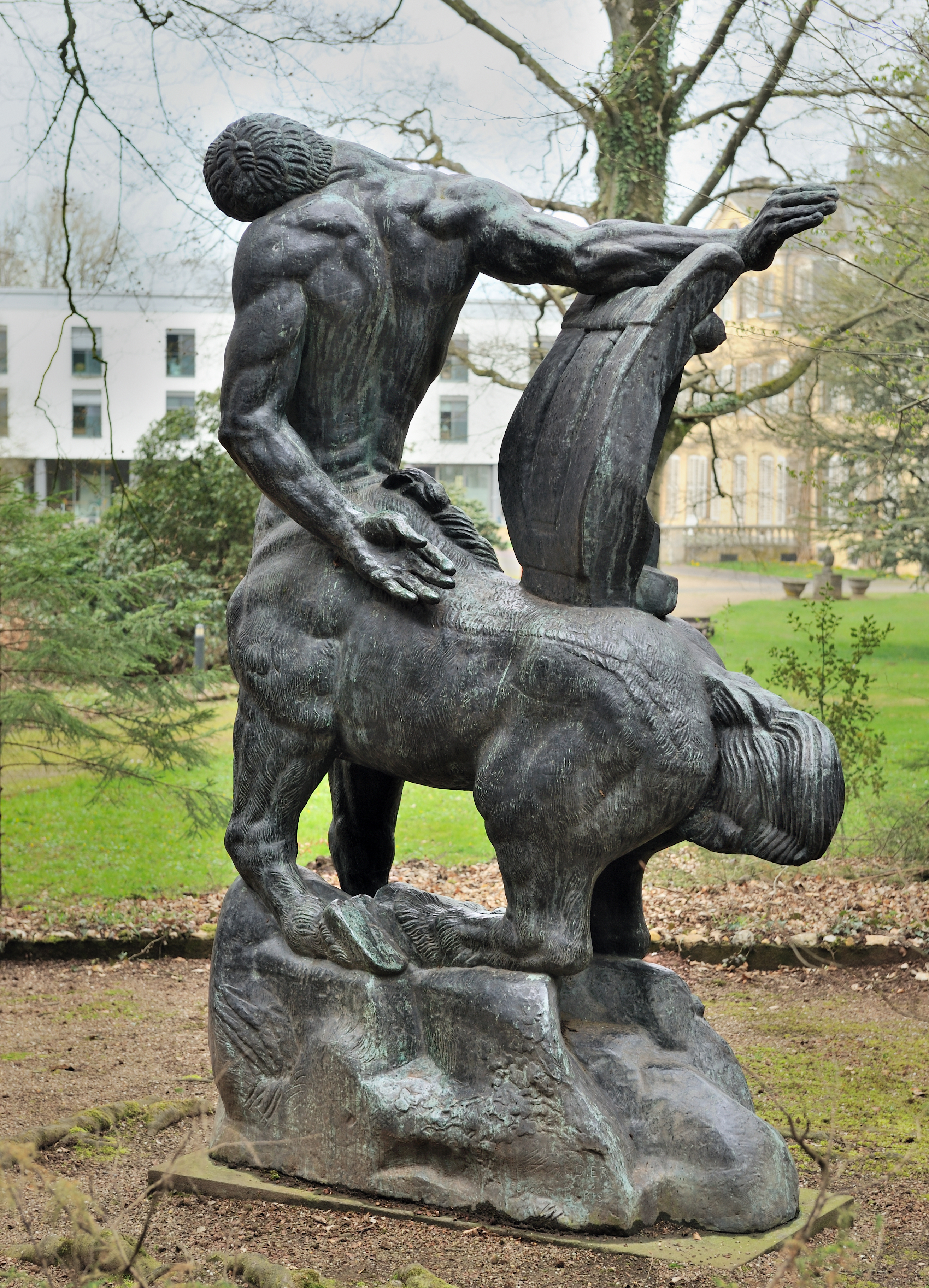 La mort du dernier centaure — bronze sculpture by Antoine Bourdelle (1861-1921). In the park of the castle at Colpach-Bas, in Luxembourg.